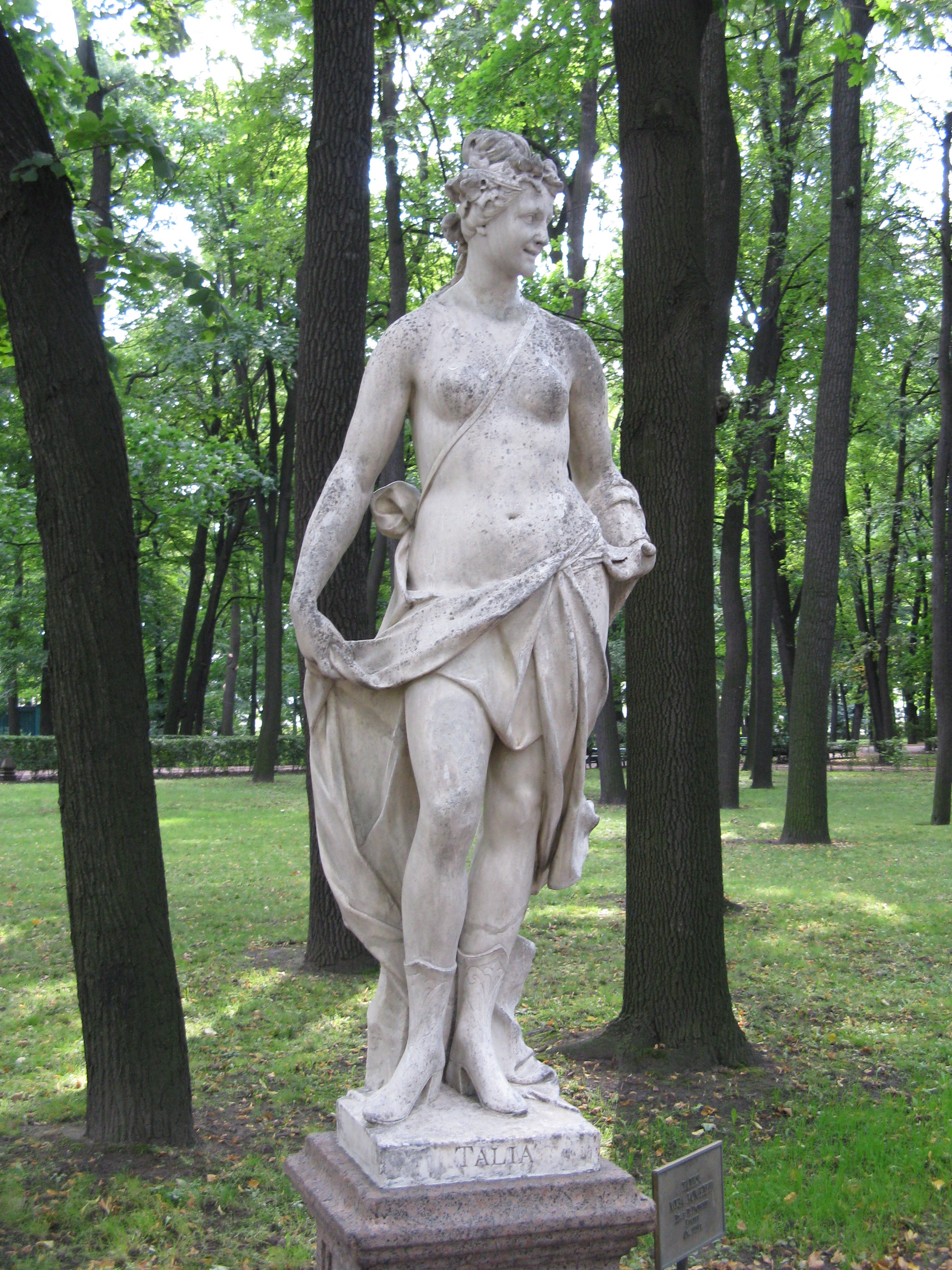 Talia, probably Thalia the Gratiae of "Good Cheer" by Gropelli 1719 at Summer Garden.